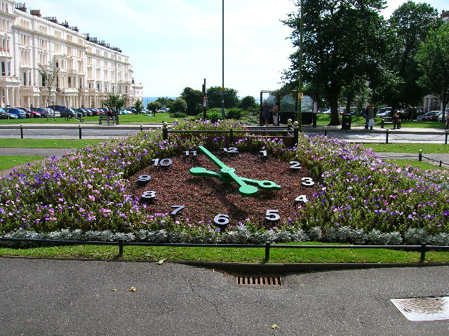 Floral Clock, Palmeira Square, Hove, England looks south towards the sea and is at the northern end of a feature that starts with a big crescent (Adelaide), followed by a square (Palmeira) and then a tiny ellipse in the middle of the B2066 where you will find this double sided clock.